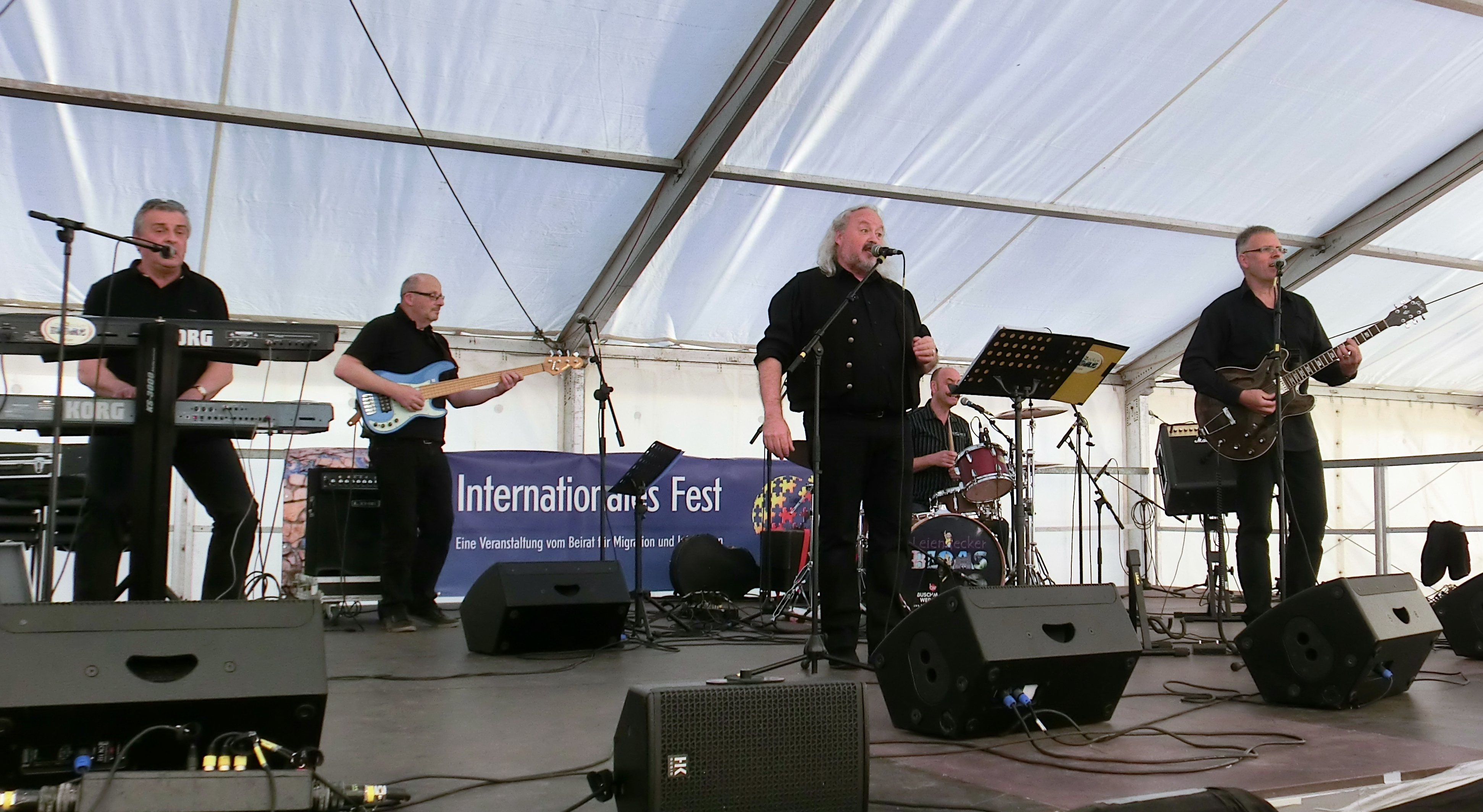 Leiendecker Bloas, musical group from Germany